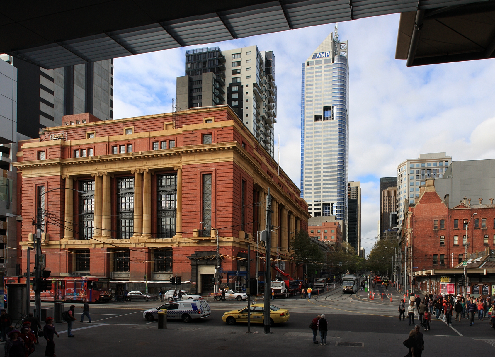 Shopping mall in the city of Melbourne